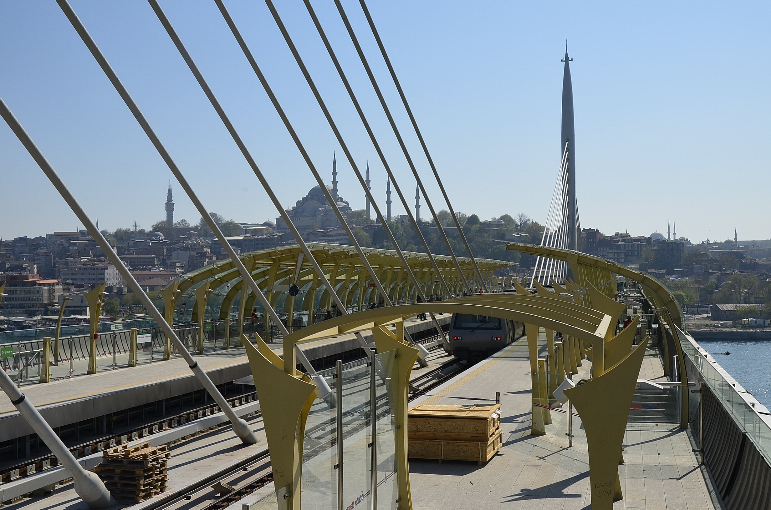 "Haliç" Station on the Golden Horn Metro Bridge in Istanbul